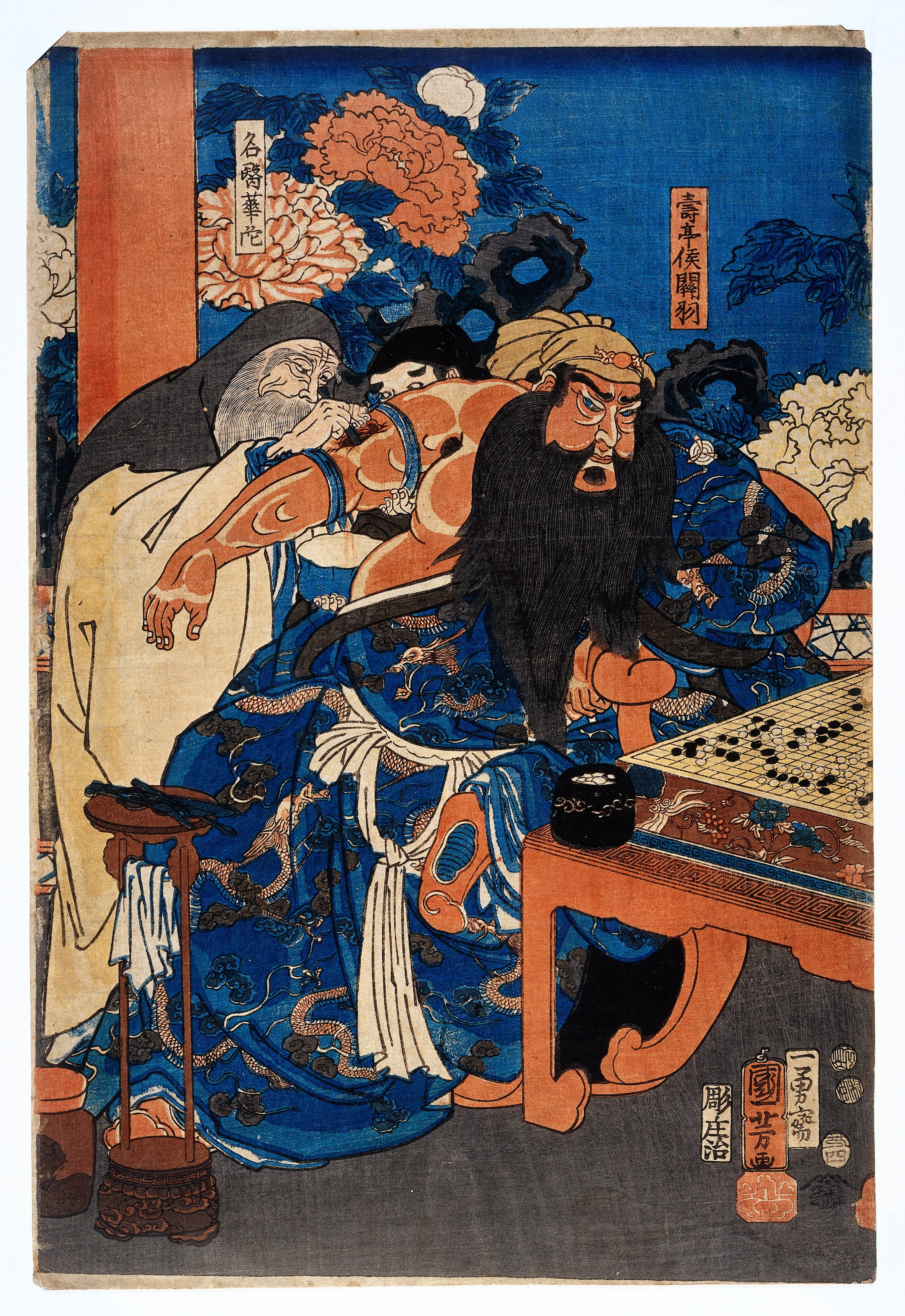 The warrior Guan Yu plays at go (a board game) while the surgeon Hua T'o operates on his arm. Centre leaf of triptych. (Left leaf is missing) Iconographic Collections Keywords: Japan; Game; Utagawa Kuniyoshi